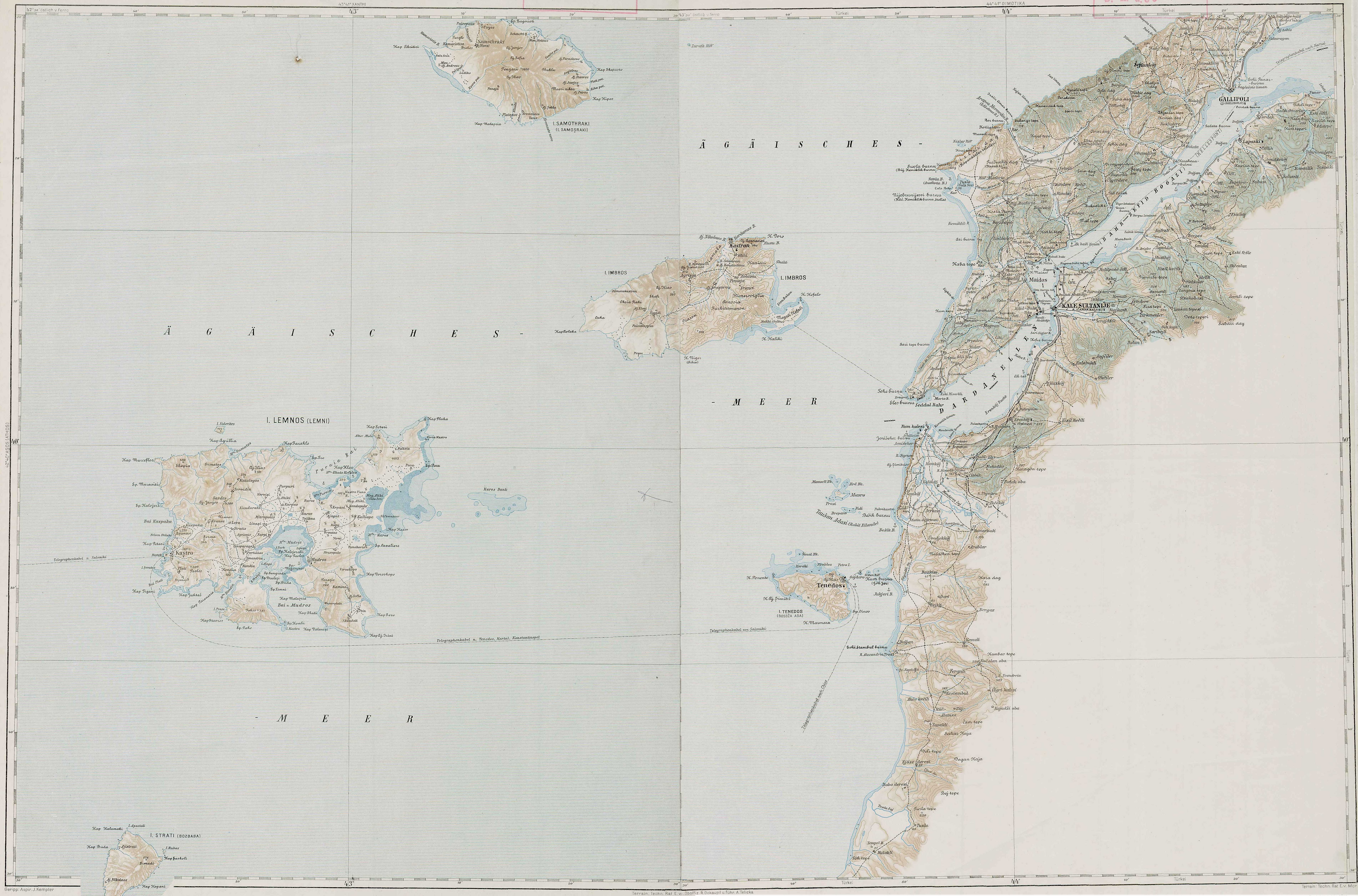 3rd Military Mapping Survey of Austria-Hungary, Generalkarte von Mitteleuropa, sheet Gallipoli (44-40), with corrections until 1916.